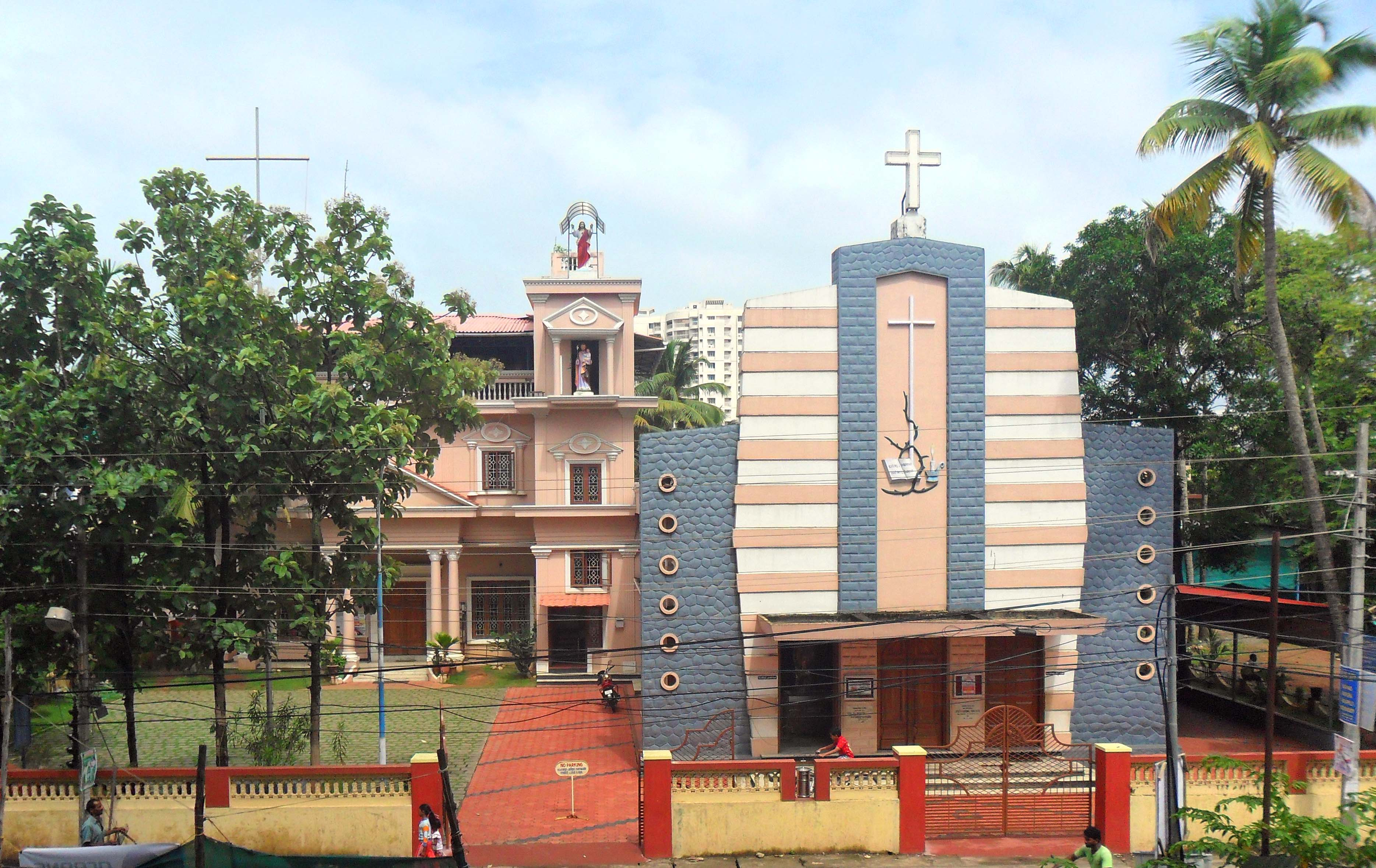 Land mark in Little Flower Church Elamkulam, St.Joseph's Church, Kadavanthra